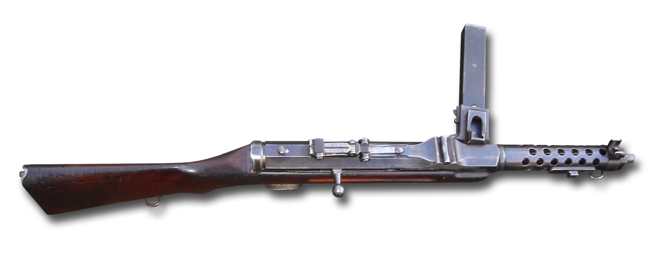 MP34 submachine gun